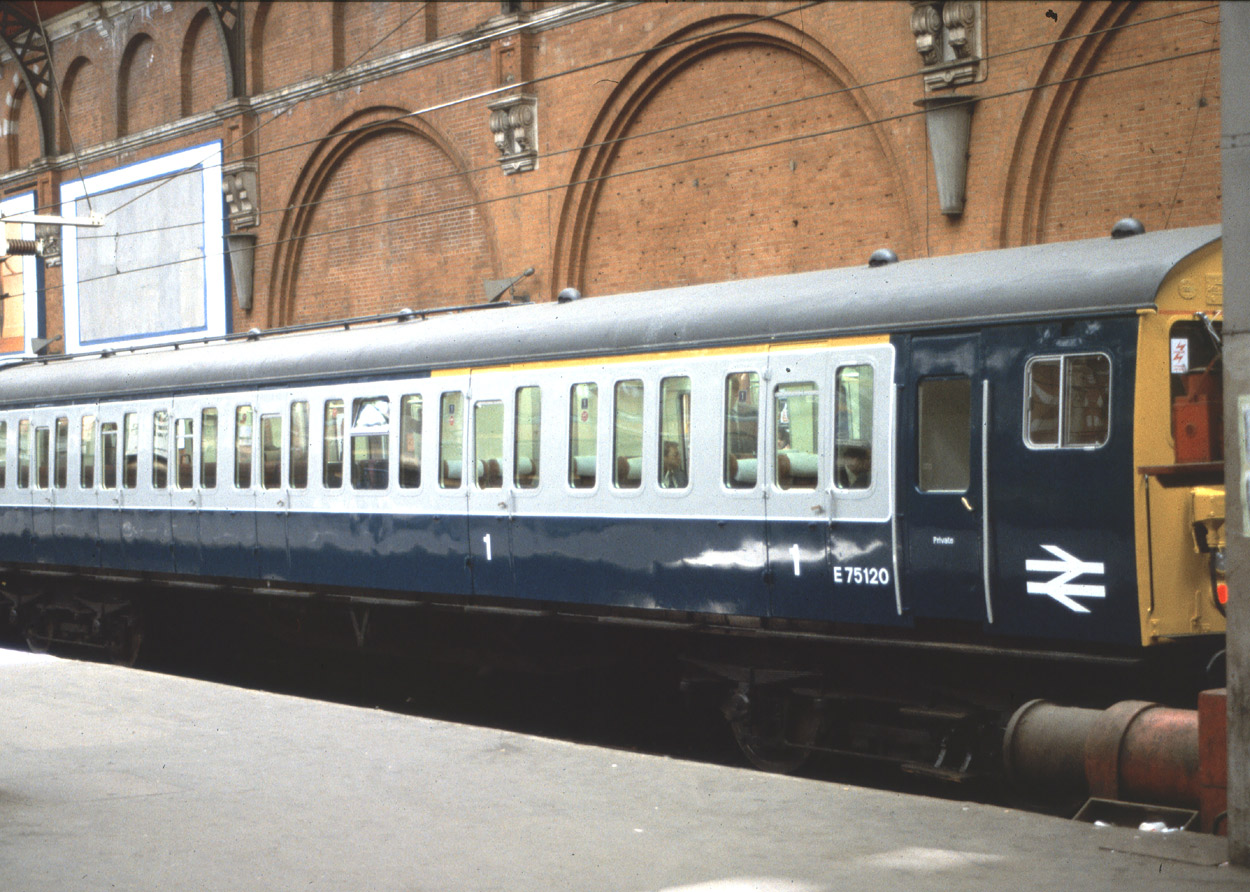 Side view of a refurbished British Railways class 307 train, showing that it has also been repainted in blue / grey livery and that the 1st class seating has been relocated - and converted from compartment with side corridor to 'open' format.